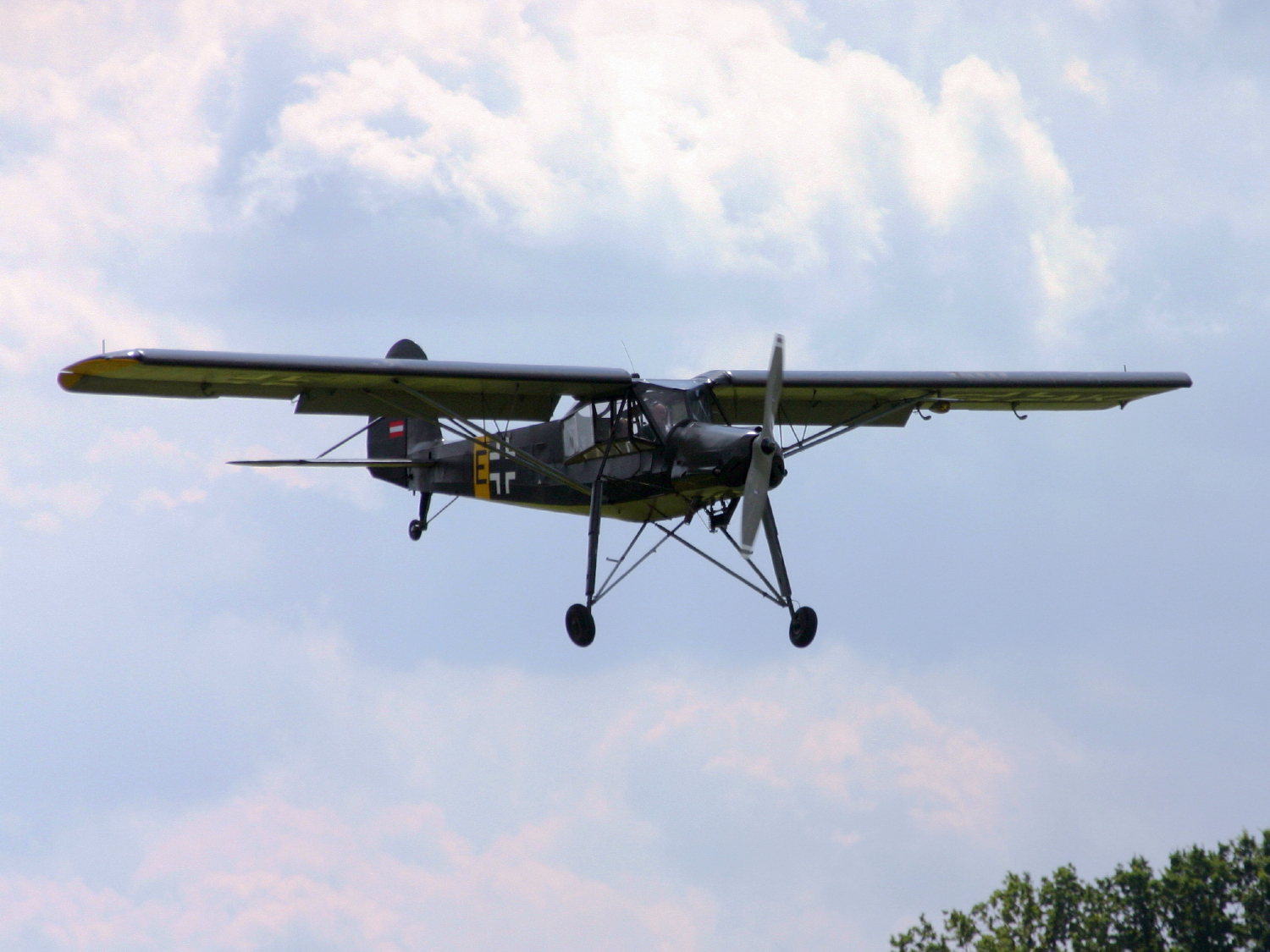 Fieseler Fi 156 Storch at the airshow in Kirchheim, Upper Austria. This original plane was built in 1942.